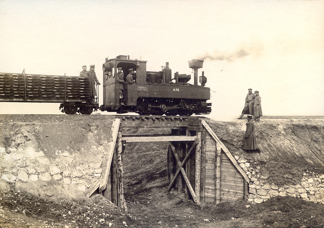 Radomir-Marino Pole Railway, 1916-1917.